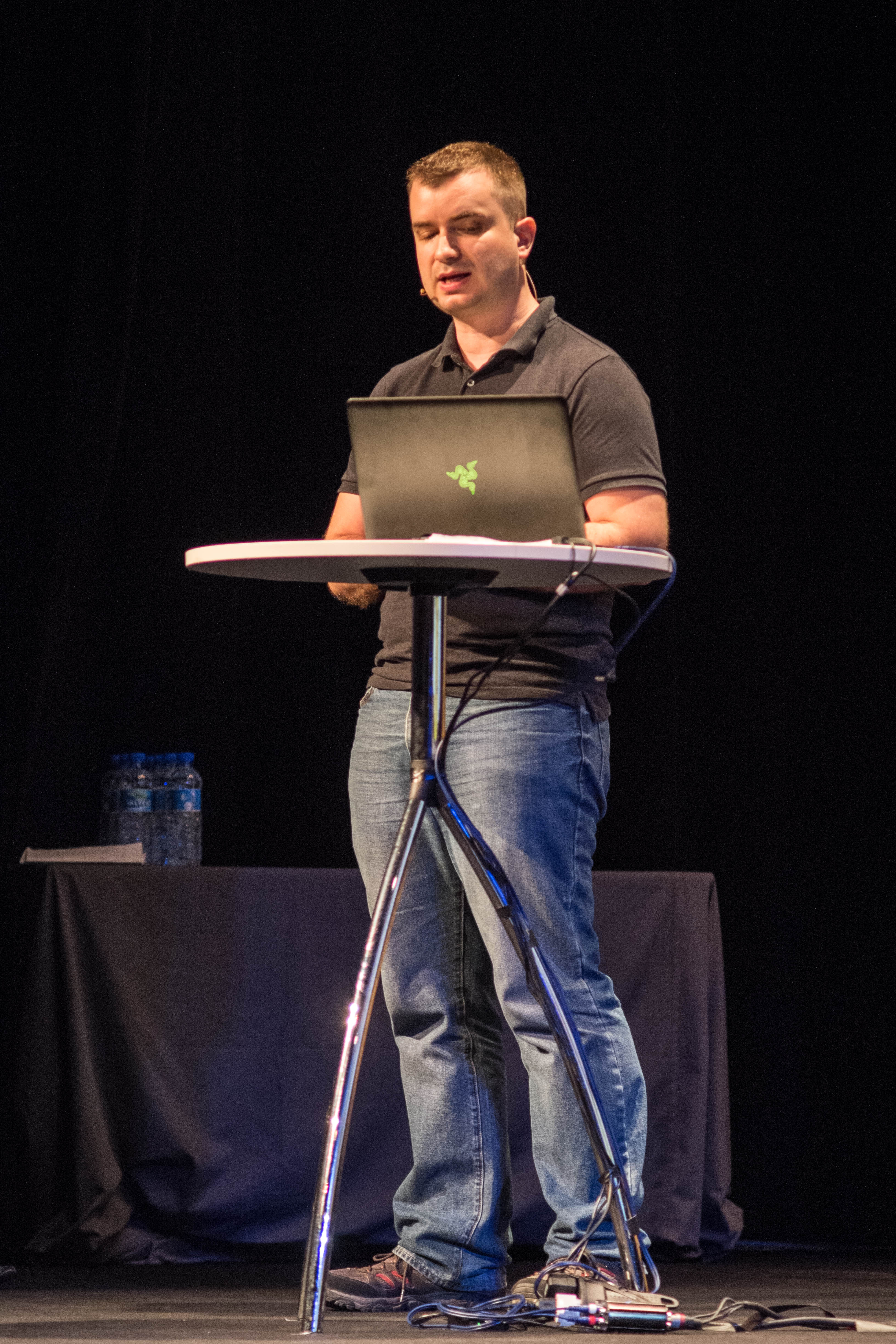 Vlad Vukicevic showing the Unreal Engine in the browser at the 2013 Mozilla Summit, Day 1, in Brussels.